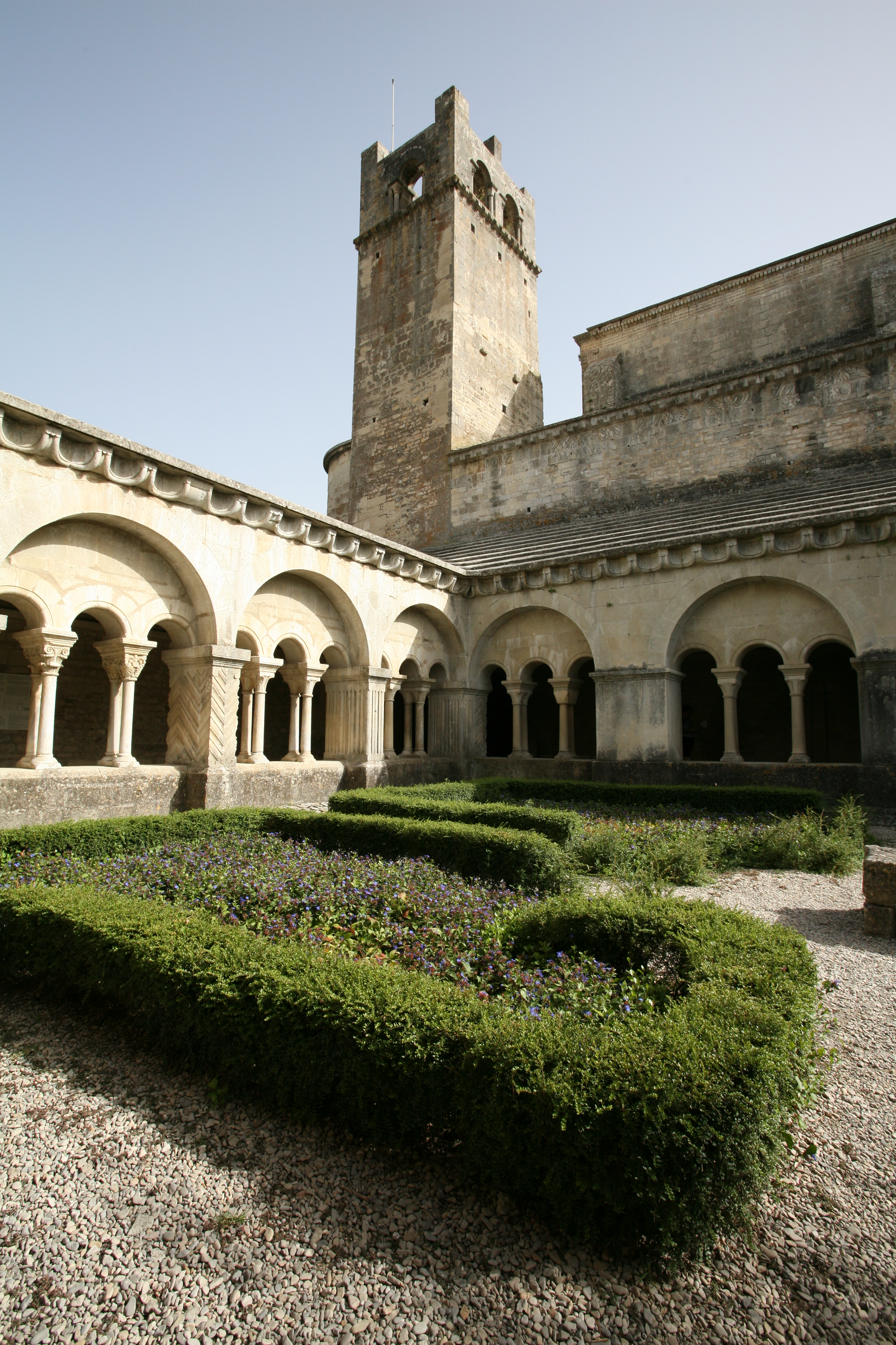 Notre Dame de Nazareth in Vaison-la-Romaine France